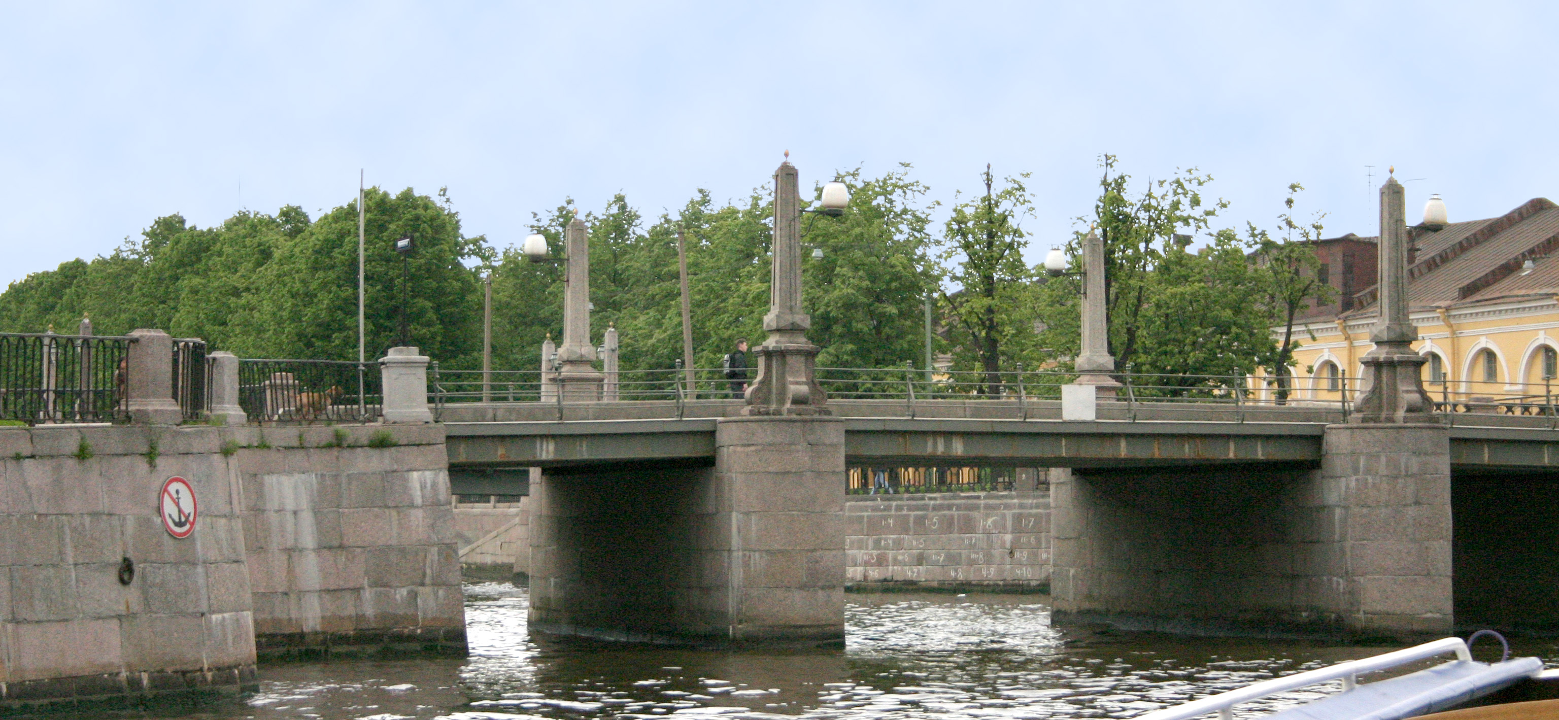 Pikalov bridge in Saint Petersburg